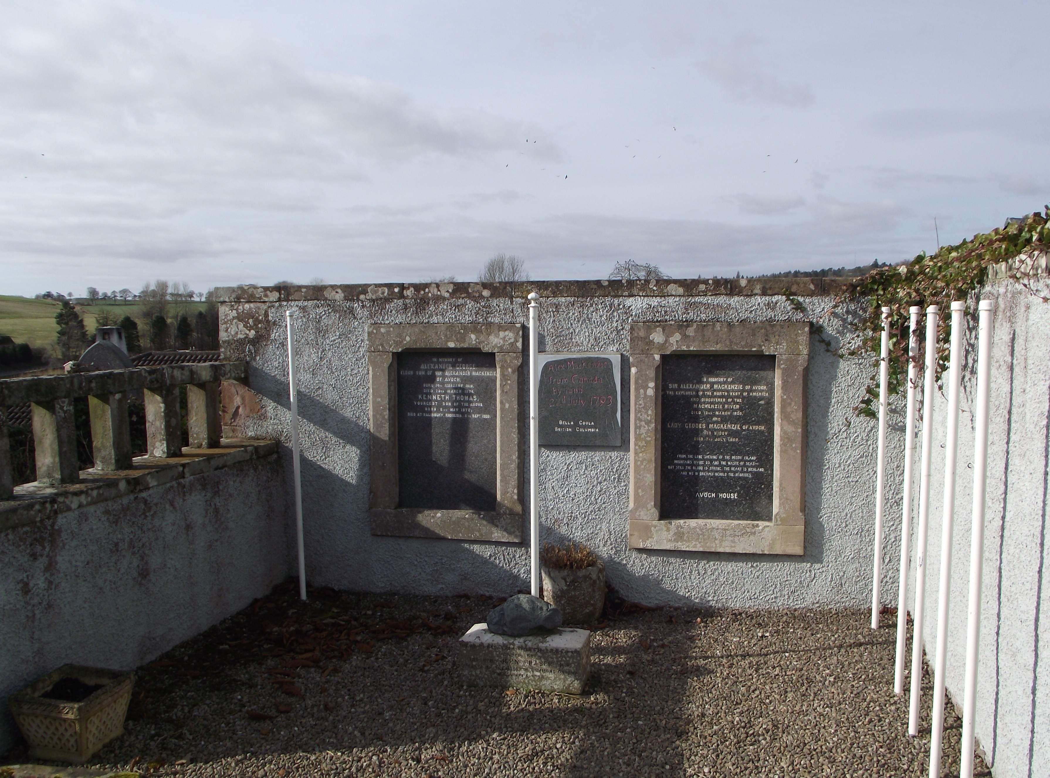 The grave of Sir Alexander MacKenzie and family. Mackenzie (1764 – March 12, 1820) is buried in the churchyard of the Parish Church in the village of Avoch (pronounced OCH, as in LOCH) on the Black Isle in Ross & Cromarty, just north of Inverness. His grave is marked by a copy of the inscription he left at Bella Coola River in British Columbia when in 1793 he completed the first recorded transcontinental crossing of North America north of Mexico.